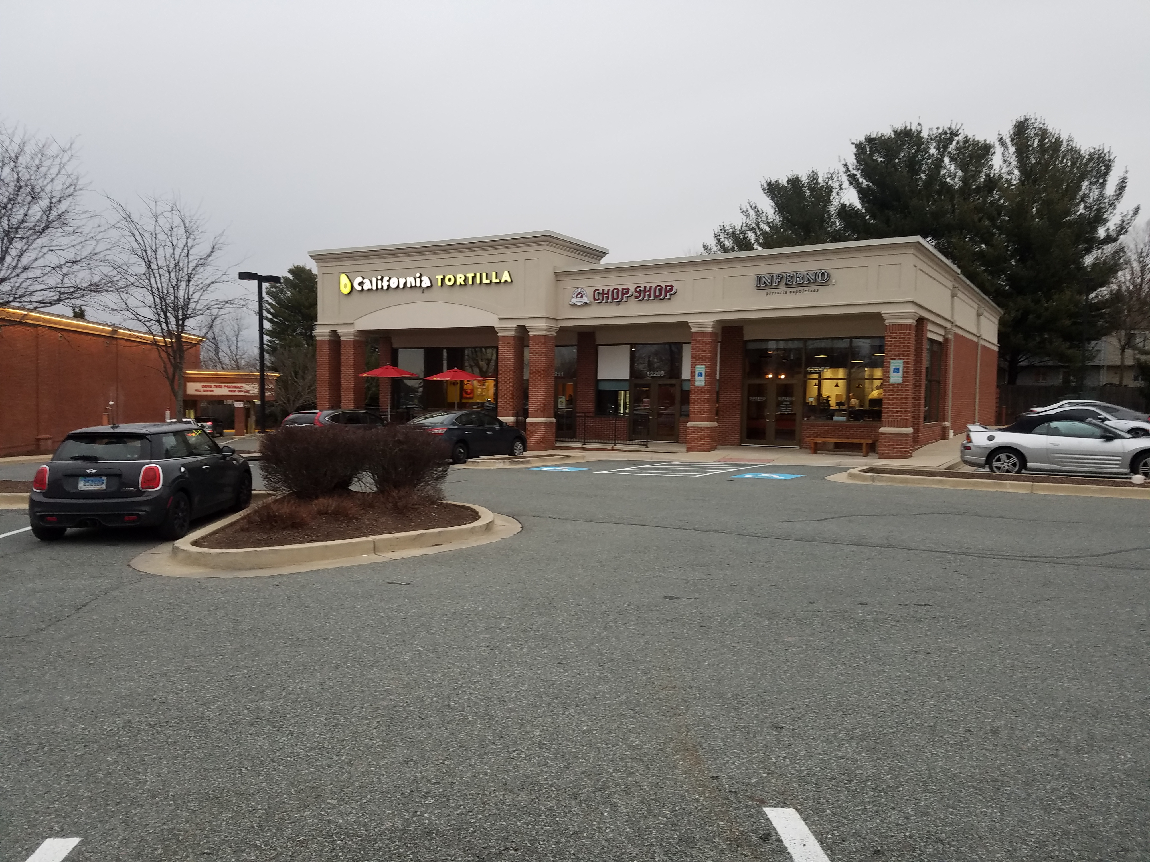 California Tortilla, Quince Orchard, Maryland, February 10, 2017.